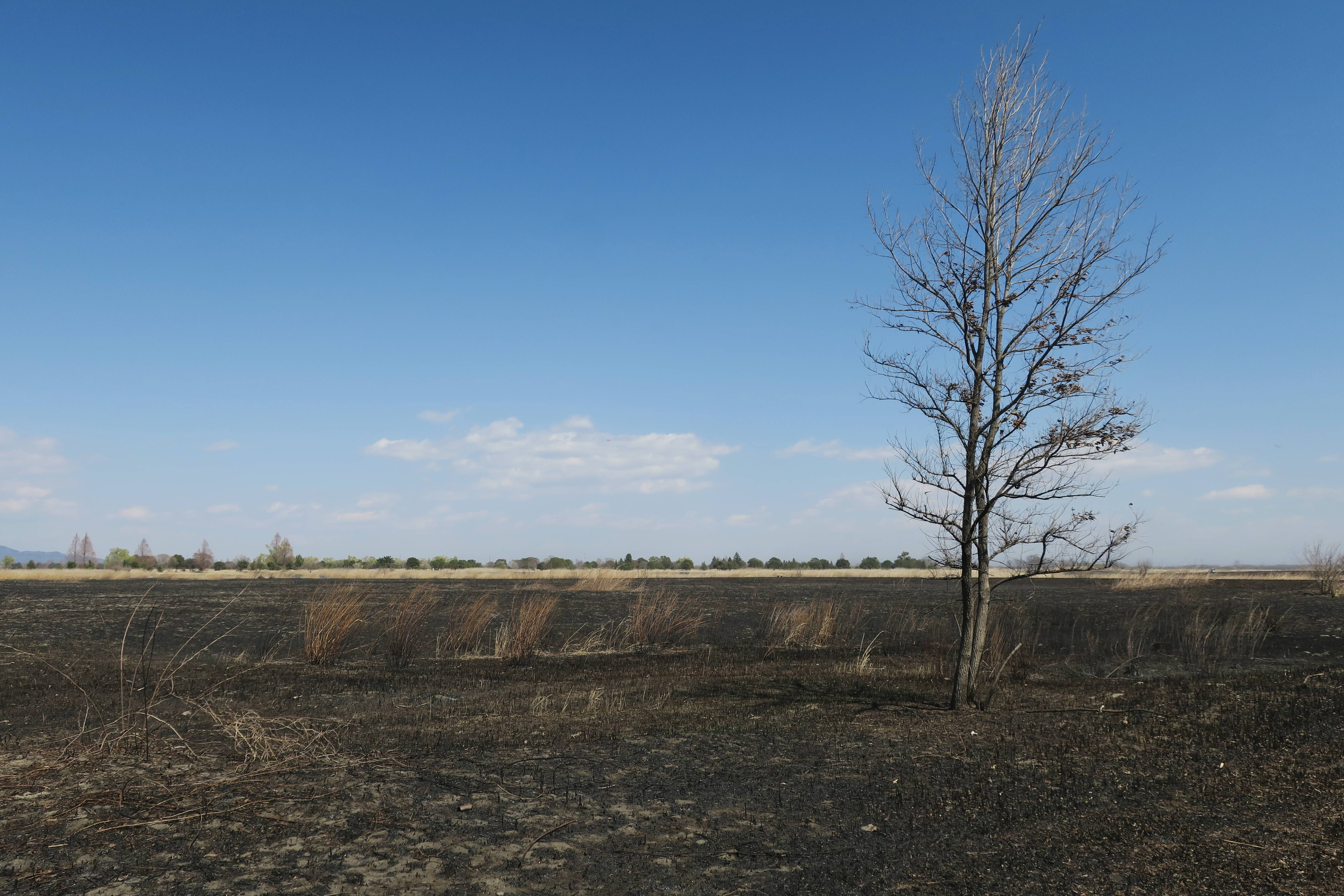 Watarase Reservoir.